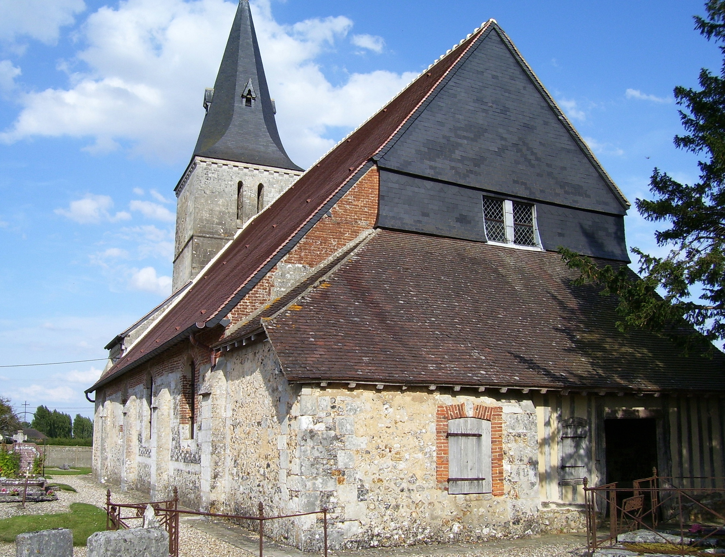 The church Saint-Aubin in Boisney was built in the 12th century, it is classified as Monument historique. Boisney is a town in Eure in the Haute-Normandie in France.